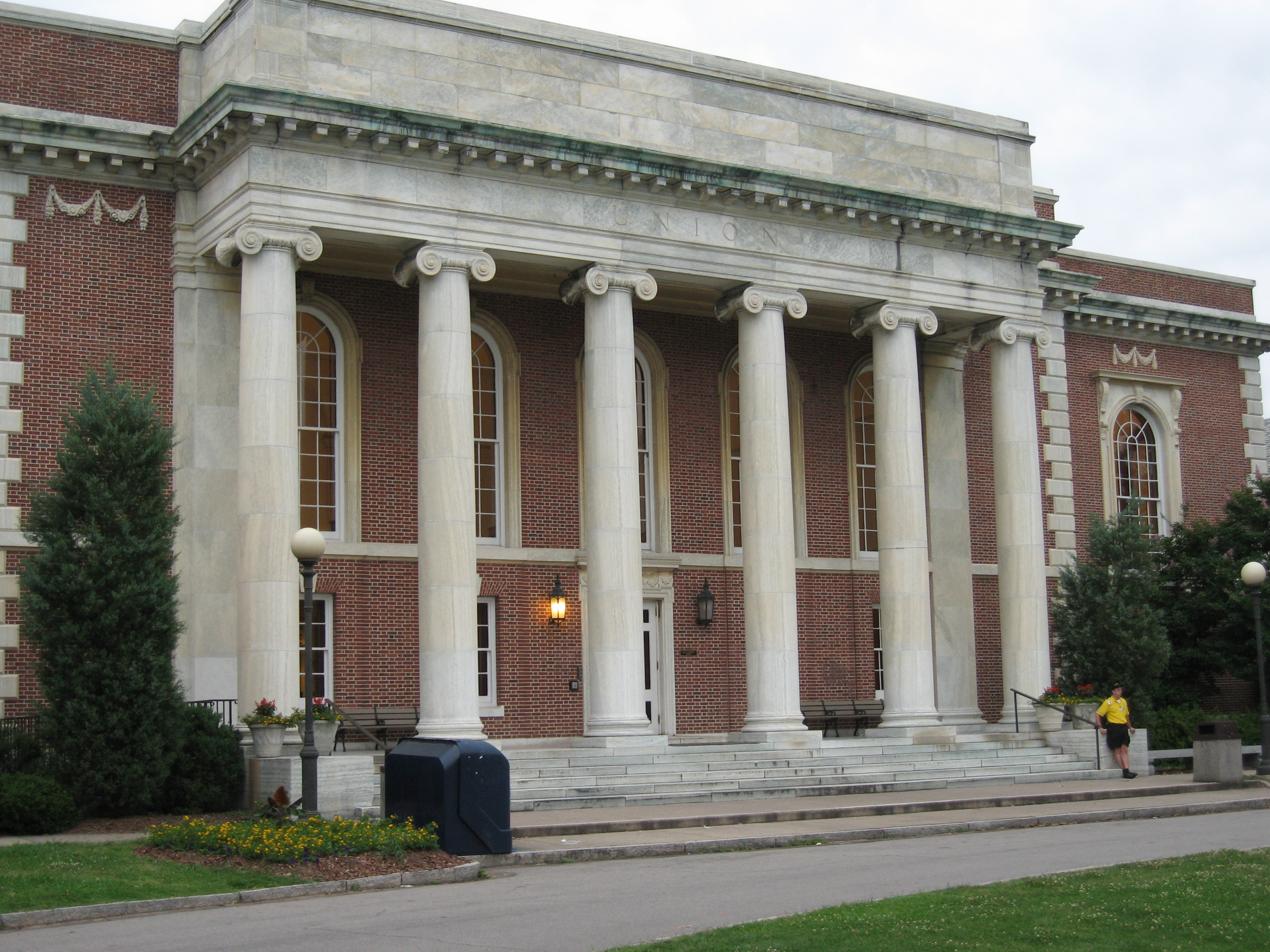 Union on Duke's east campus